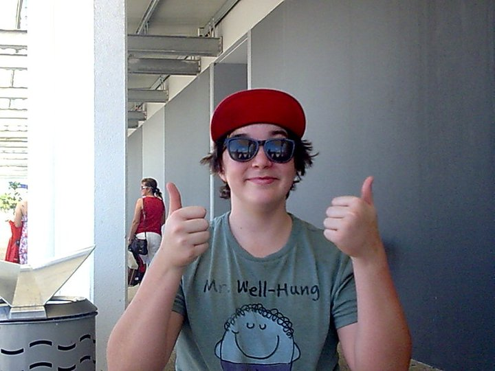 Australian boy with two thumbs up